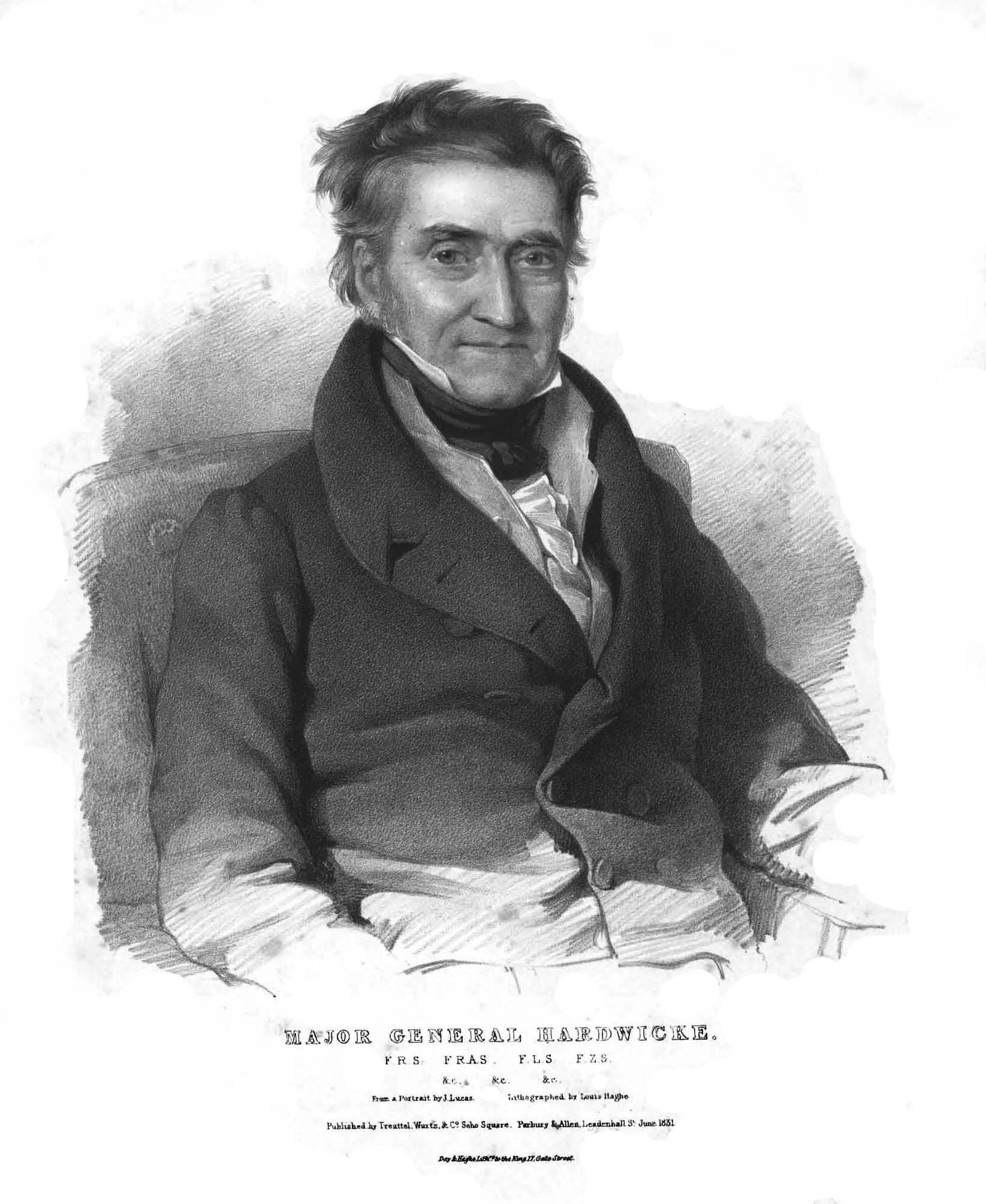 Portrait of Thomas Hardwicke (1755-1835), lithograph frontispiece of "Illustrations of Indian Zoology": chiefly selected from the collection of Major-General Hardwicke by John Edward Gray, 1830.